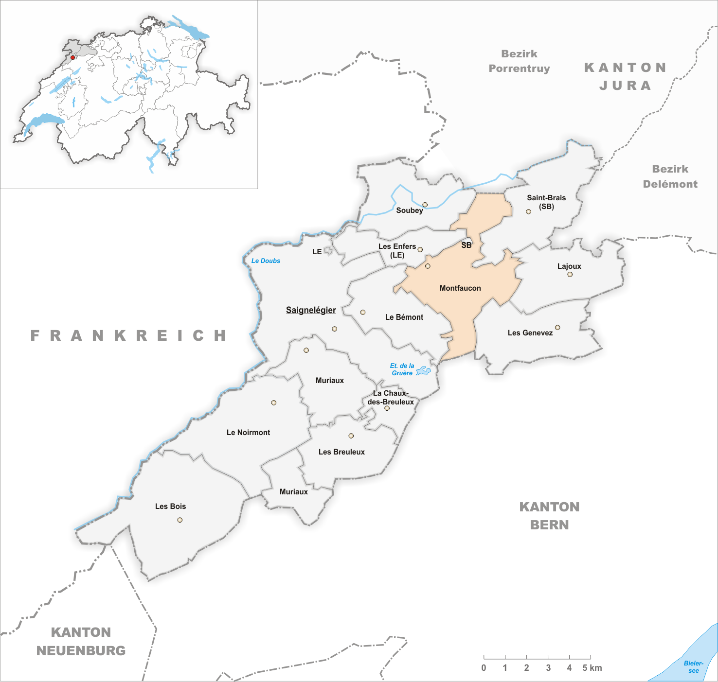 Municipality Montfaucon